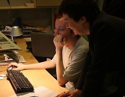 Wikipedian Kochas at work in Gazeta Wyborcza editorial office, during a special visit of the President of Warsaw Hanna Gronkiewicz-Waltz, October 9, 2006